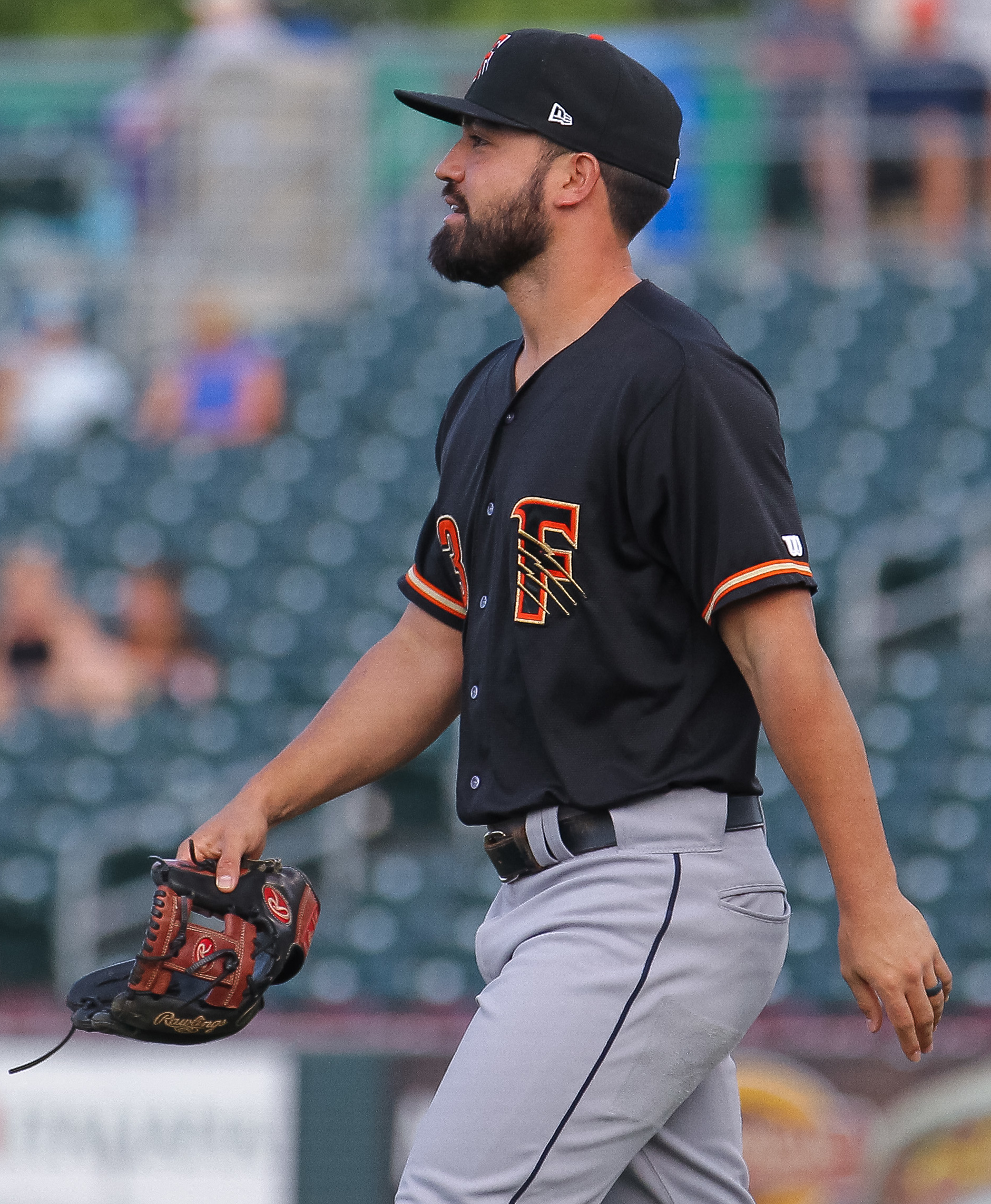 Jack Mayfield of the Fresno Grizzlies during a 2017 game at Werner Park in Nebraska.